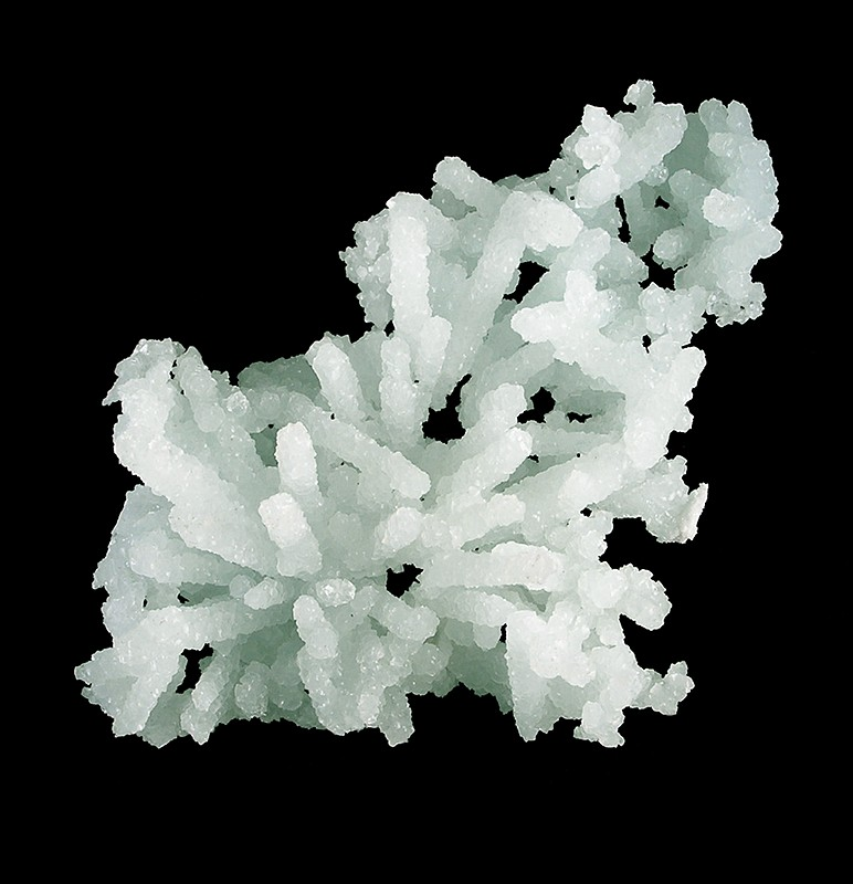 Laumontite, Prehnite Locality: Malad, Ward 38, Mumbai (Bombay), Mumbai District (Bombay District), Maharashtra, India (Locality at ) Size: cabinet, 12.1 x 12.0 x 3.7 cm Prehnite ps. Laumontite The geometric form of this specimen is quite interesting, and when you combine that with a superb luster, good color and virtually no damage, you have an excellent specimen.